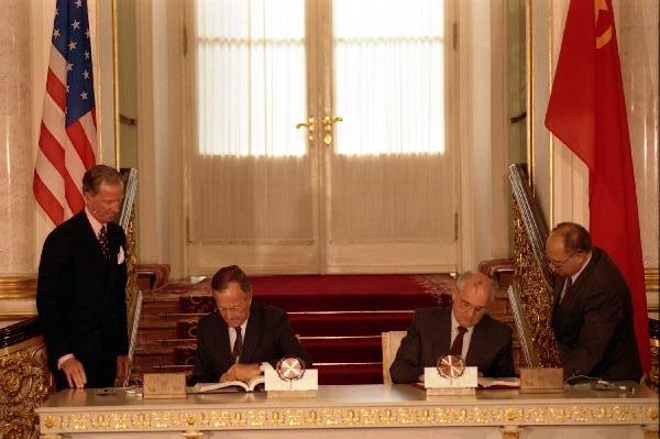 On 31 July 1991, the US President, George Bush (sitting on the left), and General Secretary of the Communist Party of the Soviet Union, Mikhail Gorbachev (sitting on the right), sign the START I Agreement for the mutual elimination of the two countries’ strategic nuclear weapons.